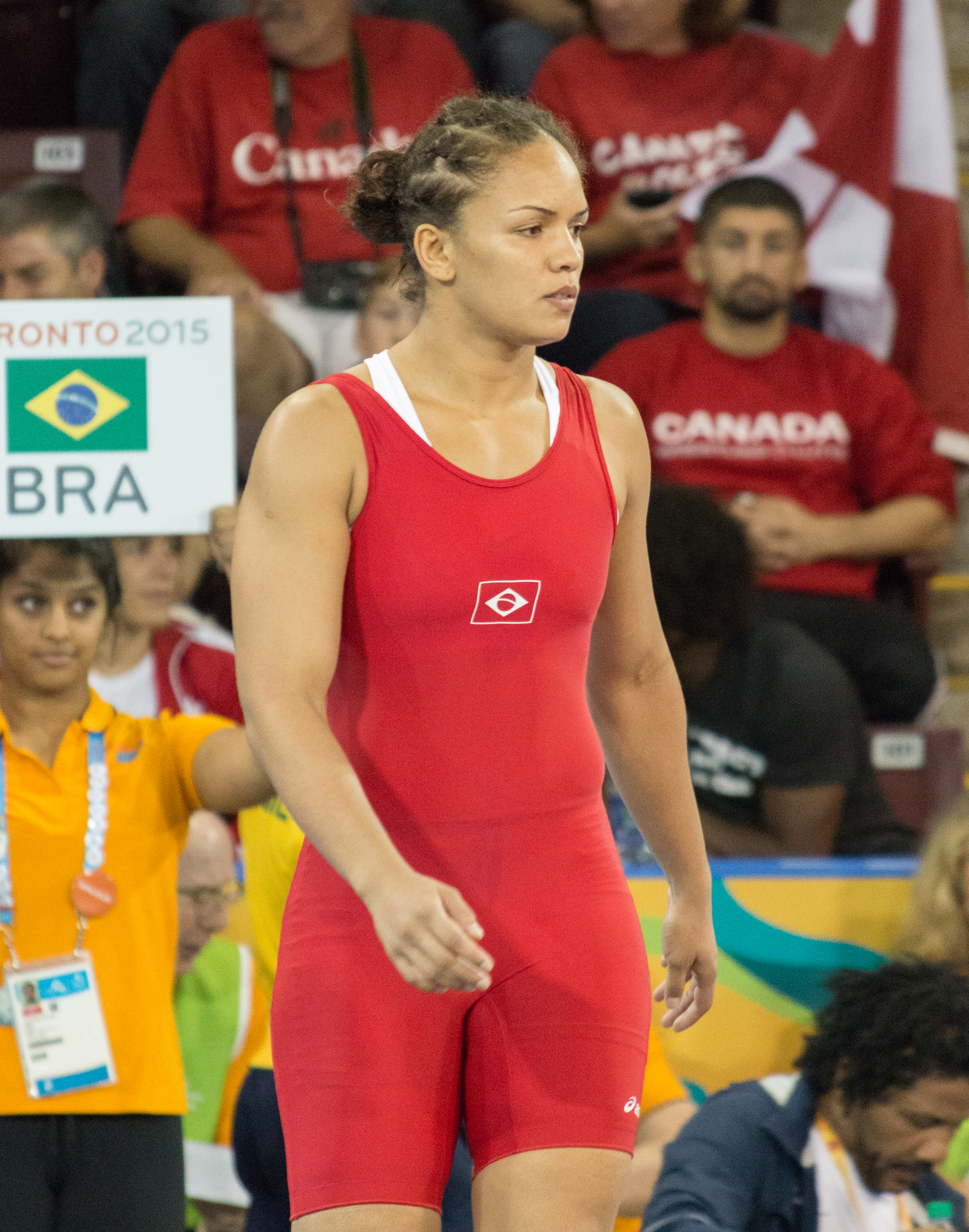 Aline Ferreira entering the ring prior to her bronze medal match at the Pan Am 2015